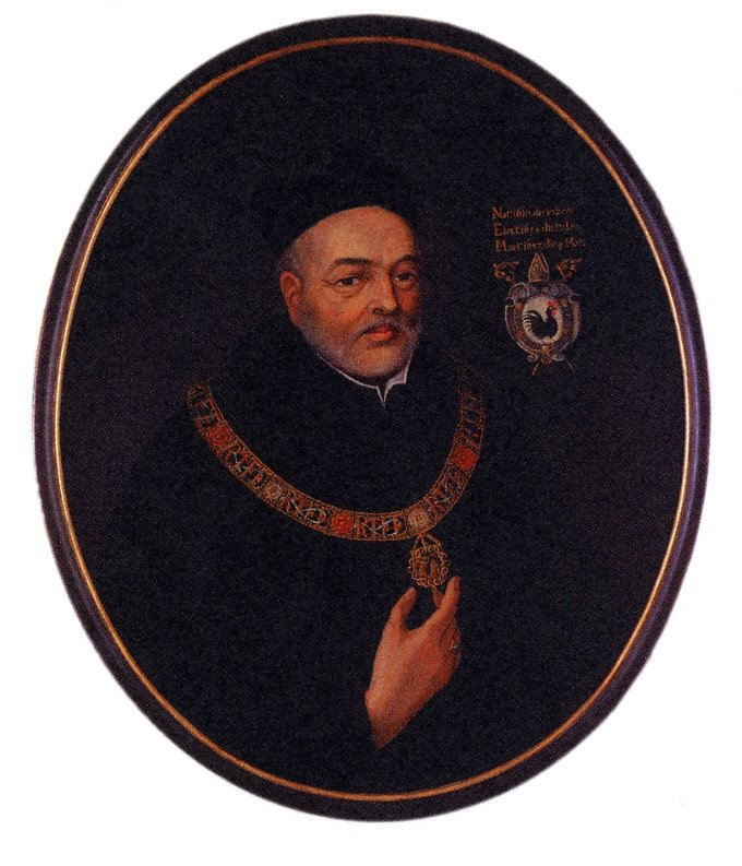 Portrait of Gallus Alt, Prince-Abbot of St. Gall (1654-1687).